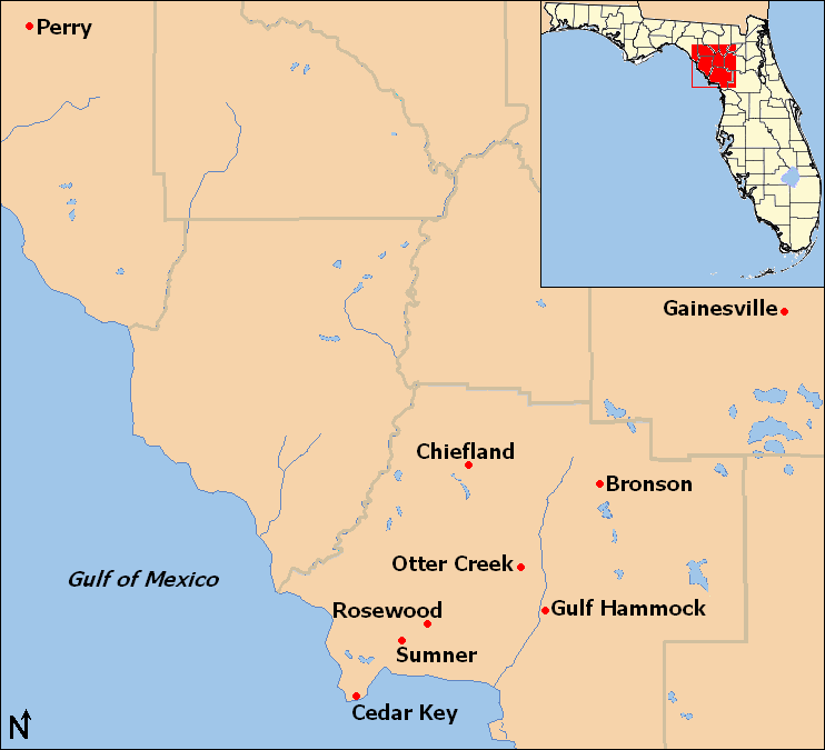 Map of locations mentioned in the Rosewood massacre article in northwestern Florida, United States.